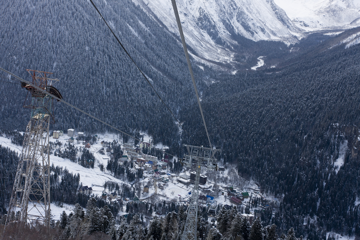 Russia, Karachayevo Cherkesiya, Dombai, View from skiing ground